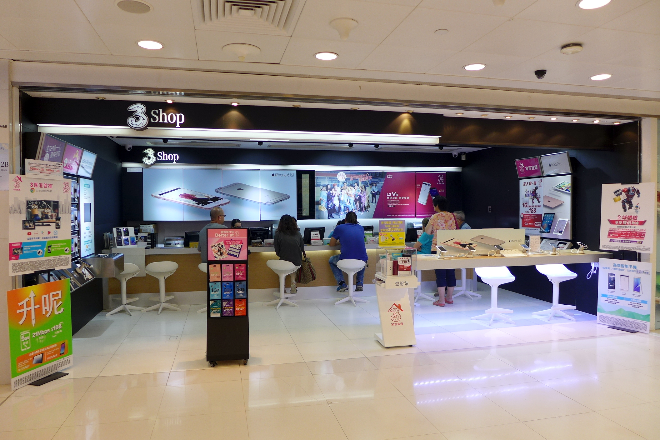 3 Shop in Shatin Plaza